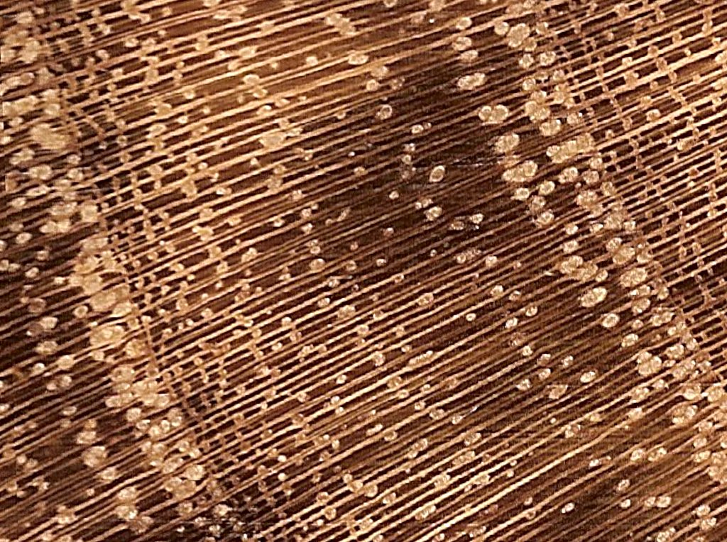 Black locust, end grain, scraped, finished with linseed oil and shellac to bring out pore structure.